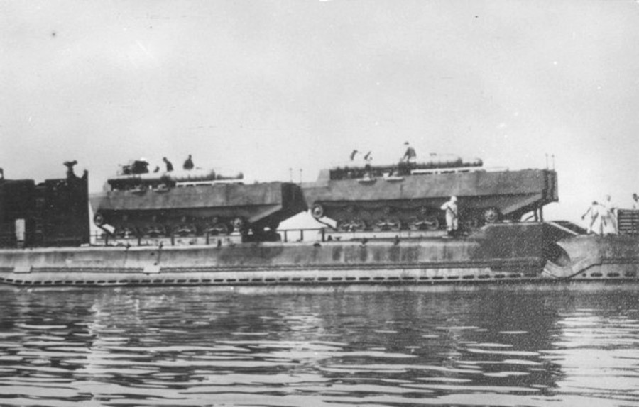 Two Imperial Japanese Navy Type 4 Ka-Tsu amphibious landing craft of World War II. They are armed with two torpedoes on each side, standing on the deck of a IJN submarine.